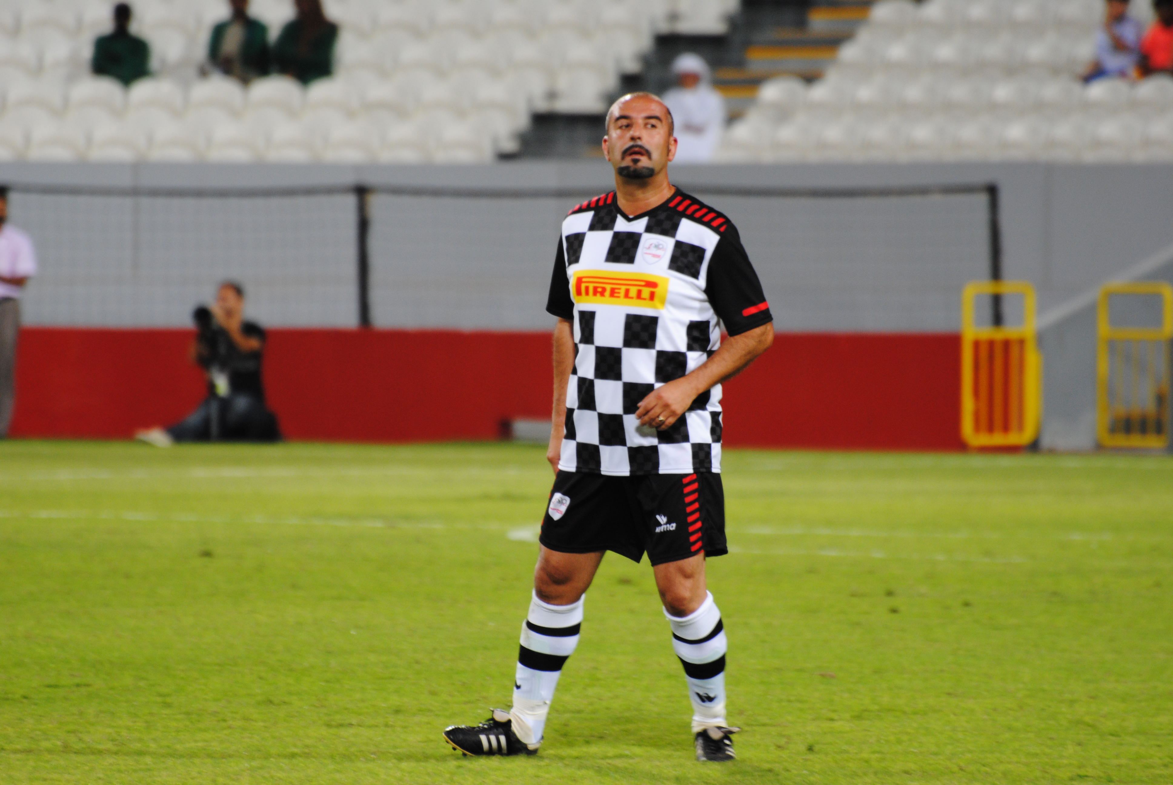 Ivan Capelli In Abu Dhabi